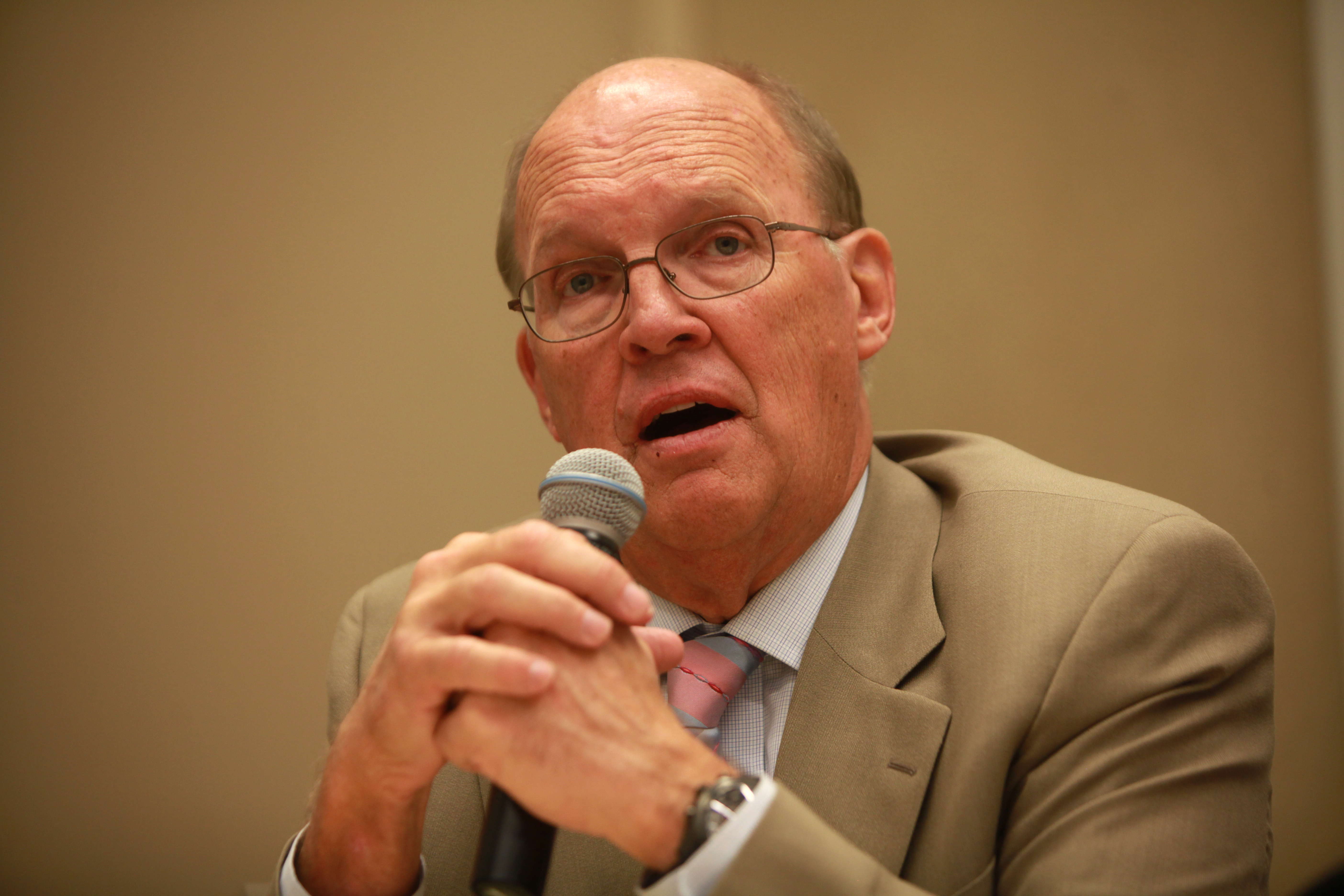 Neal Boortz speaking at an event in Phoenix, Arizona.